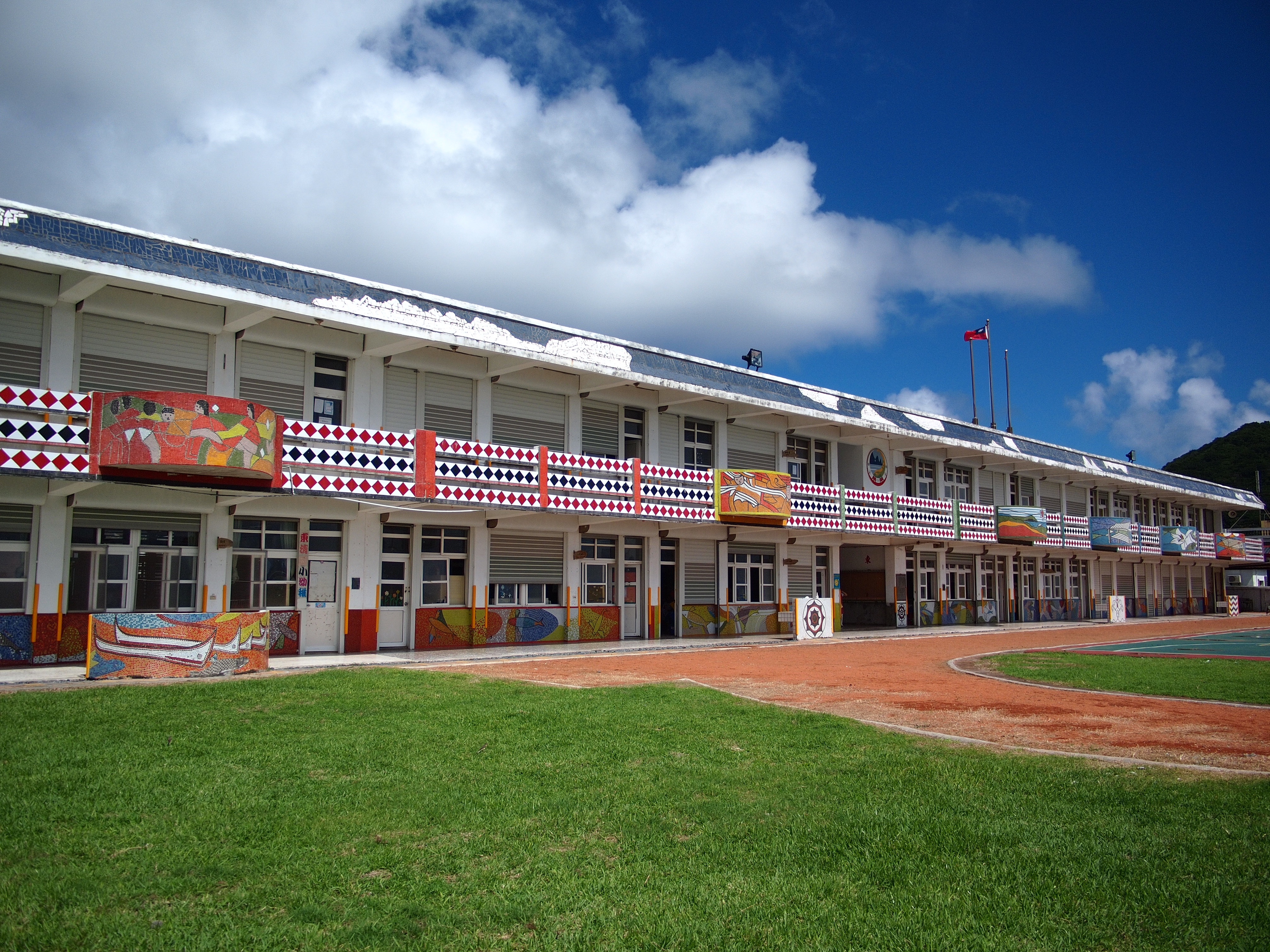 Iranmeylek Elementary School in Orchid Island. (台東縣蘭嶼鄉東清國小)